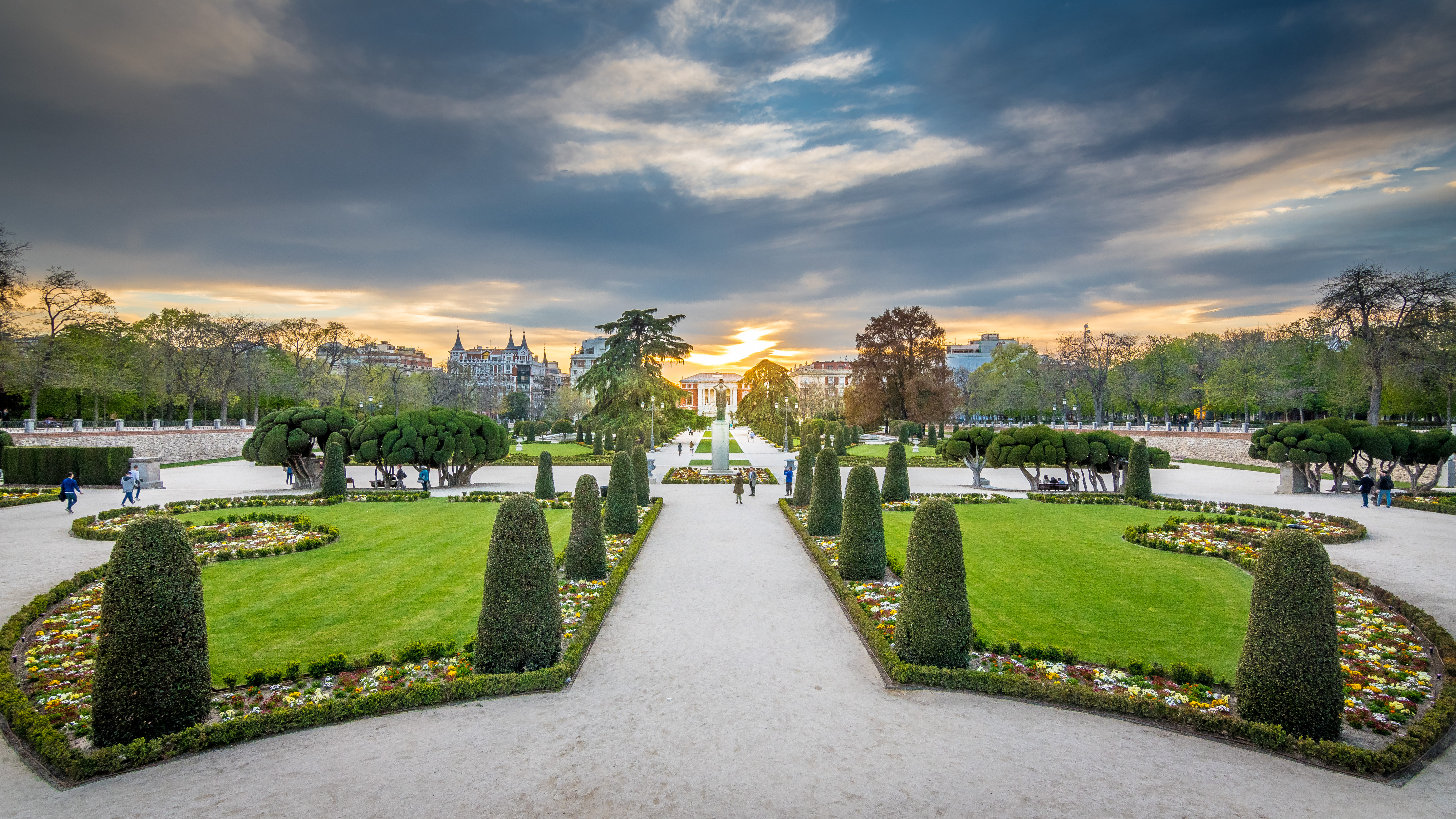 symmetry in Retiro park